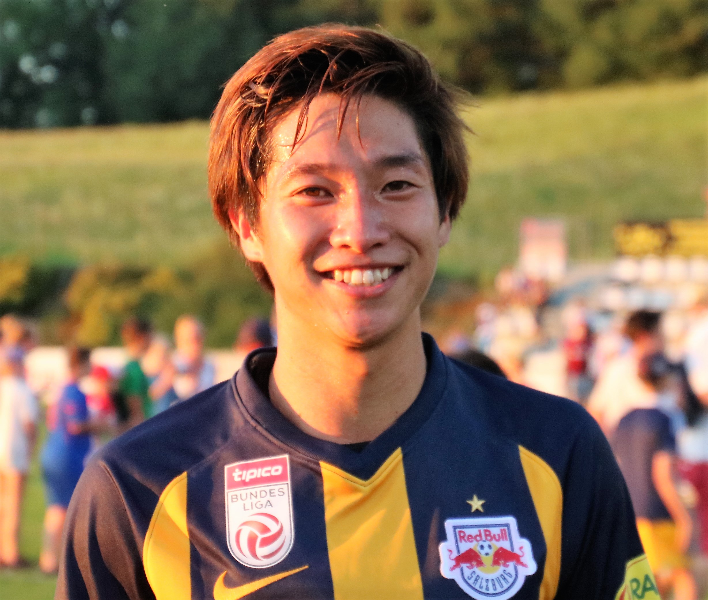 FC RB Salzburg gegen Kayseri Spor Kulübü (Testspiel, 23. Juli 2019)